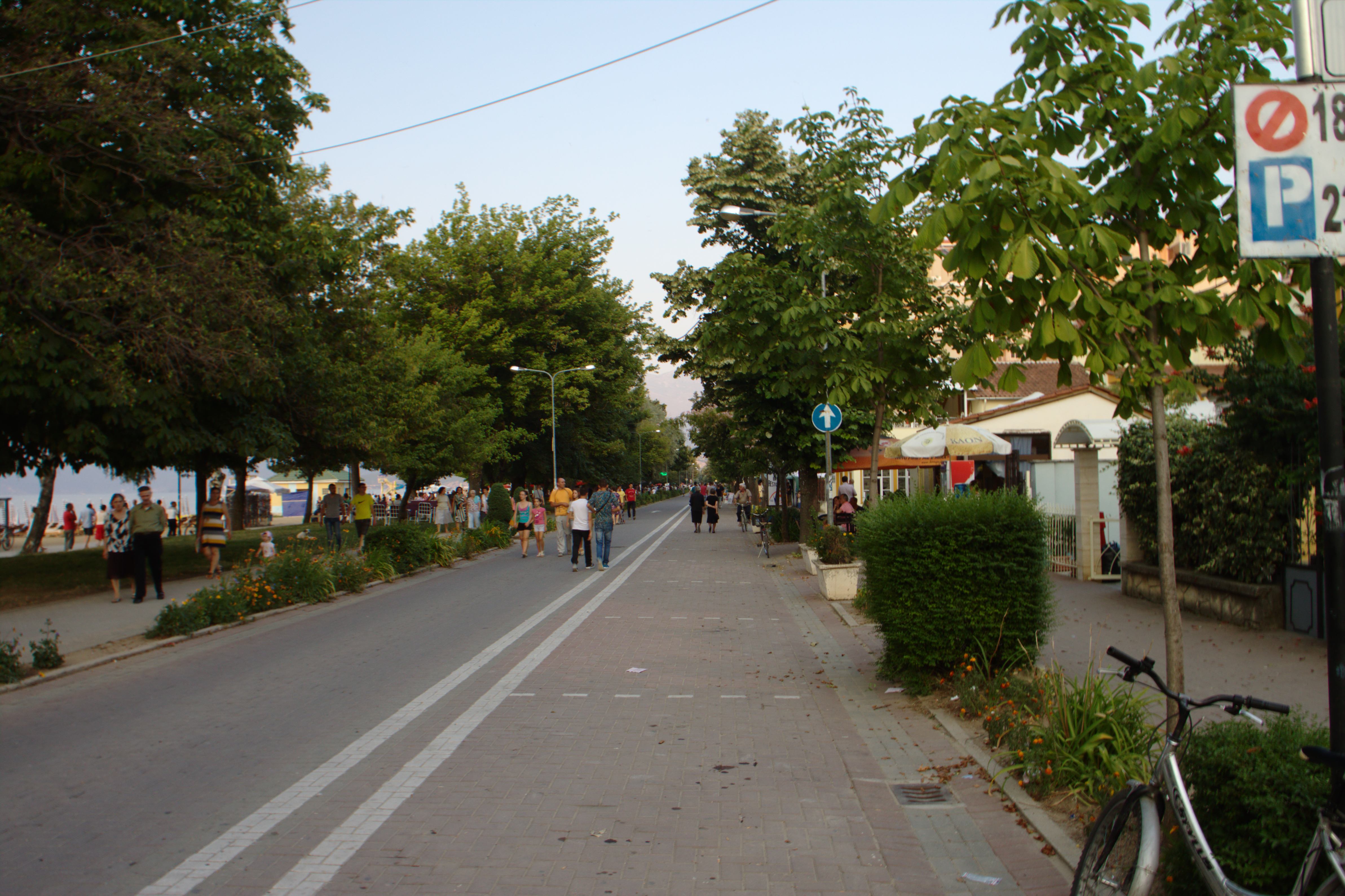 Main road near the Ohrid lake beach in Pogradec, Albania